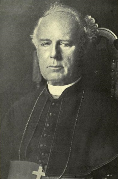 Picture of the most reverend Patrick William Riordan